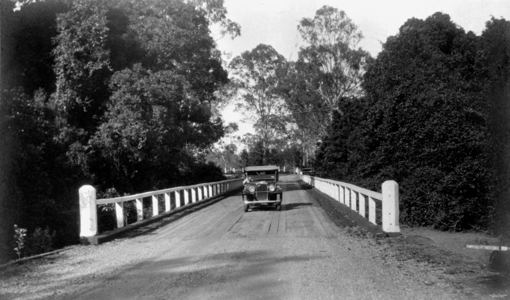 Austin motor vehicle crossing a bridge at Burpengary, 1934. An early model Austin motor vehicle crossing a timber bridge at Burpengary on the North Coast road.